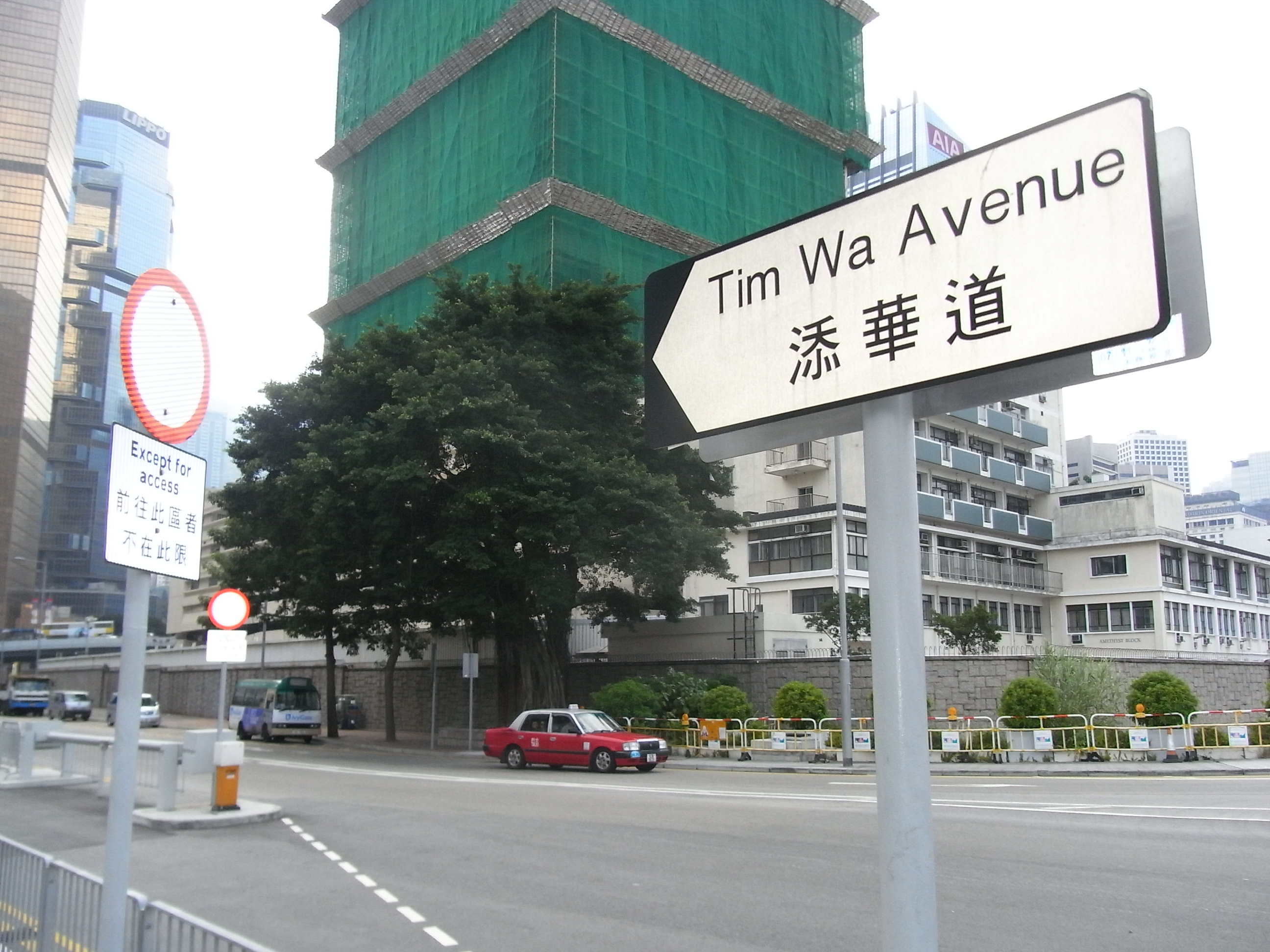 Lung Wo Road, Admiralty, Central, Hong Kong